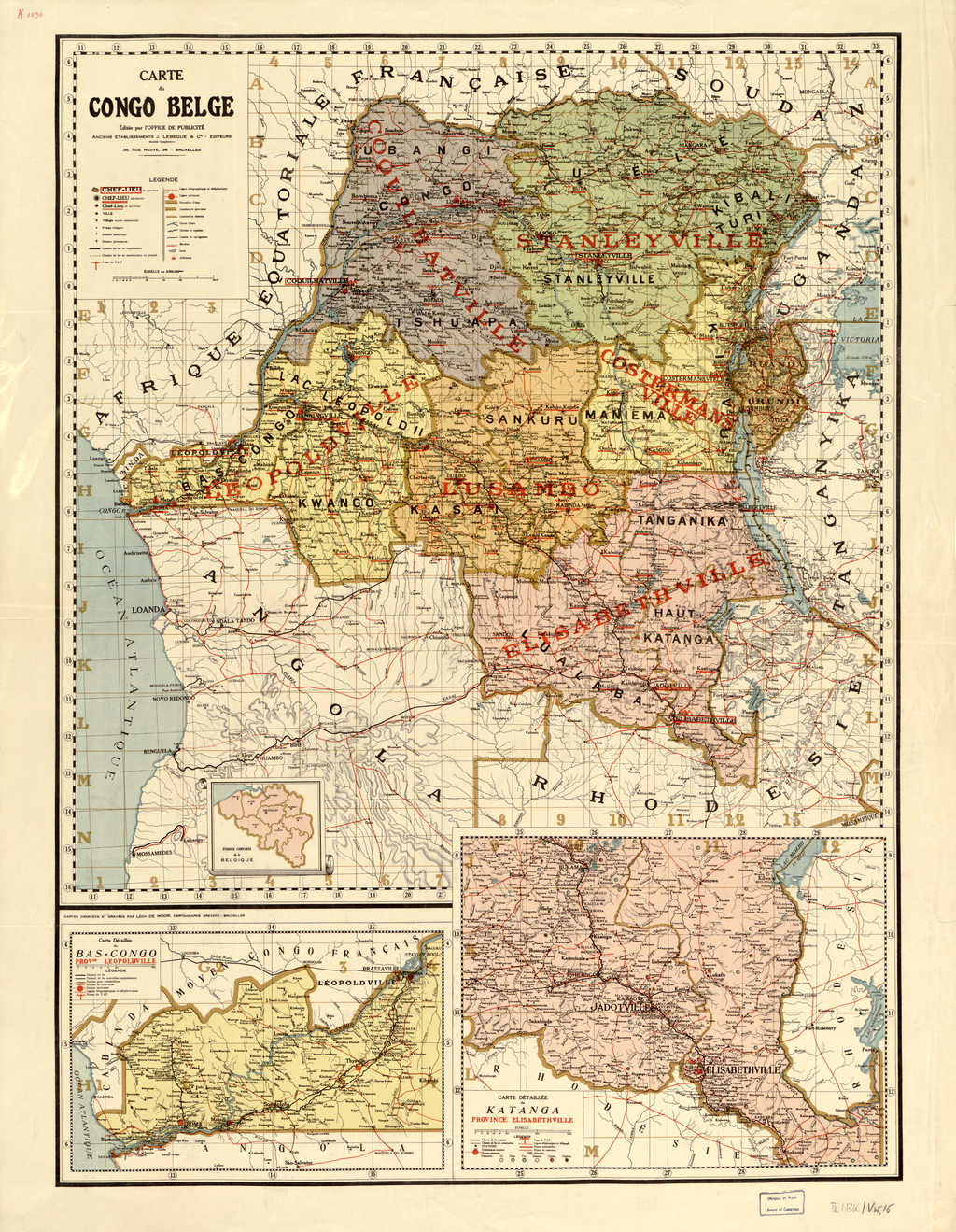 Little is known about the actual cartographer and engraver of this map, Léon de Moor. More is known about the publishing house, J. Lebègue and Co. The firm published many geographical documents, including maps and travel accounts. In 1896, when this map was published, the Belgian Congo–known as the Congo Free State–was actually a personal possession of King Leopold II and not an official Belgian colony. The king was engaged in a vigorous publicity campaign aimed at convincing the other European powers to recognize the legitimacy of his rule, a difficult task in view of the notorious brutality of his administration in Africa. A close look at the legend of the map reveals J. Lebègue and Co. as the publisher, but the “Office of Publicity” as its editor. The map includes detailed insets of the provinces of Leopoldville in the lower Congo and of Elisabethville in Katanga.